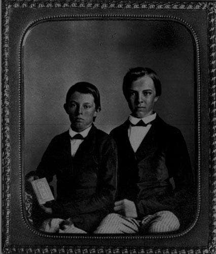 Sanford B. Dole and George H. Dole, sons of Daniel Dole and Emily Hoyt Ballard.